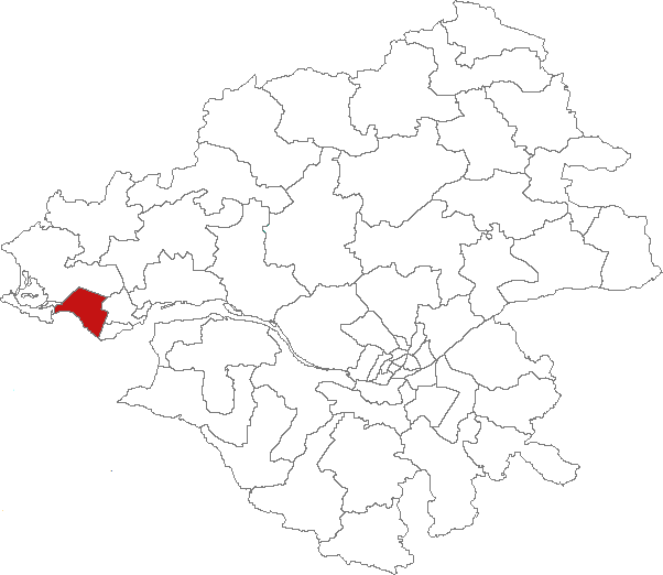 Map of canton of France : Canton de La Baule-Escoublac, Loire-Atlantique, France